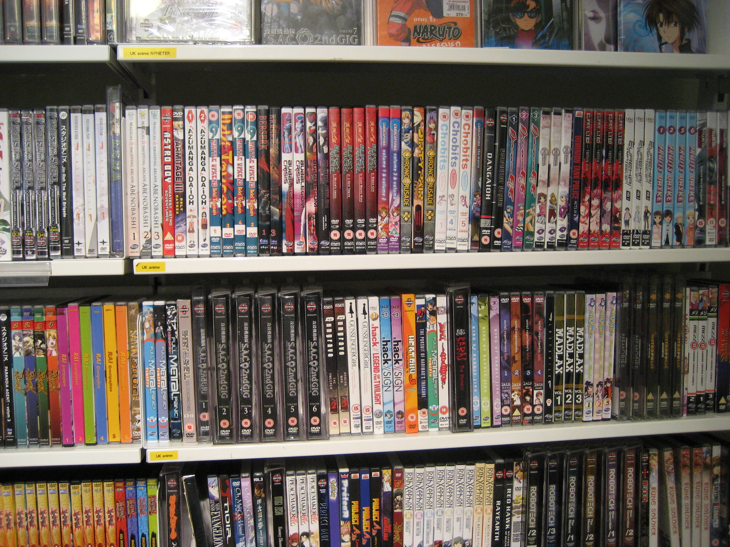 Some anime at "Science Fiction Bokhandeln", Gothenburg.